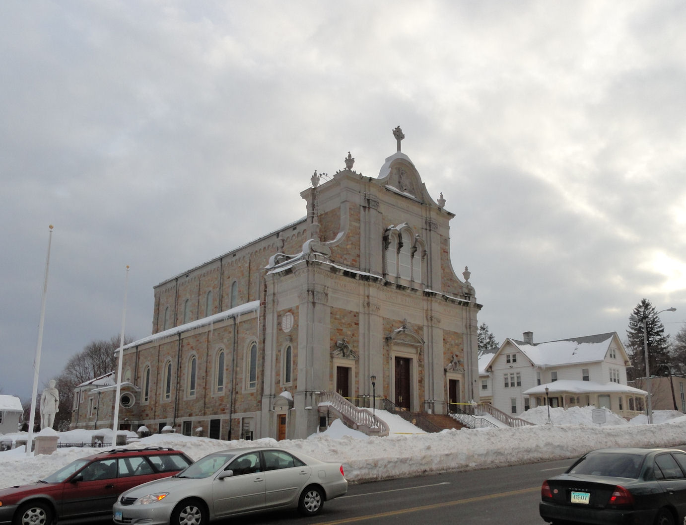 St. Sebastian Church, Middletown Connecticut Raymond C. Gorrani architect